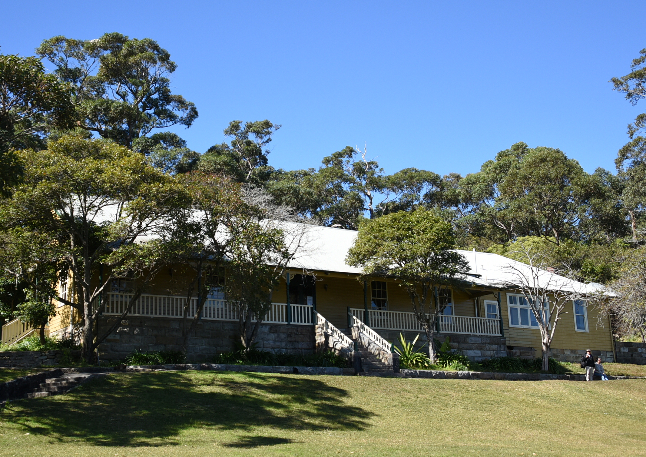 Athol Hall, Bradleys Head, Sydney